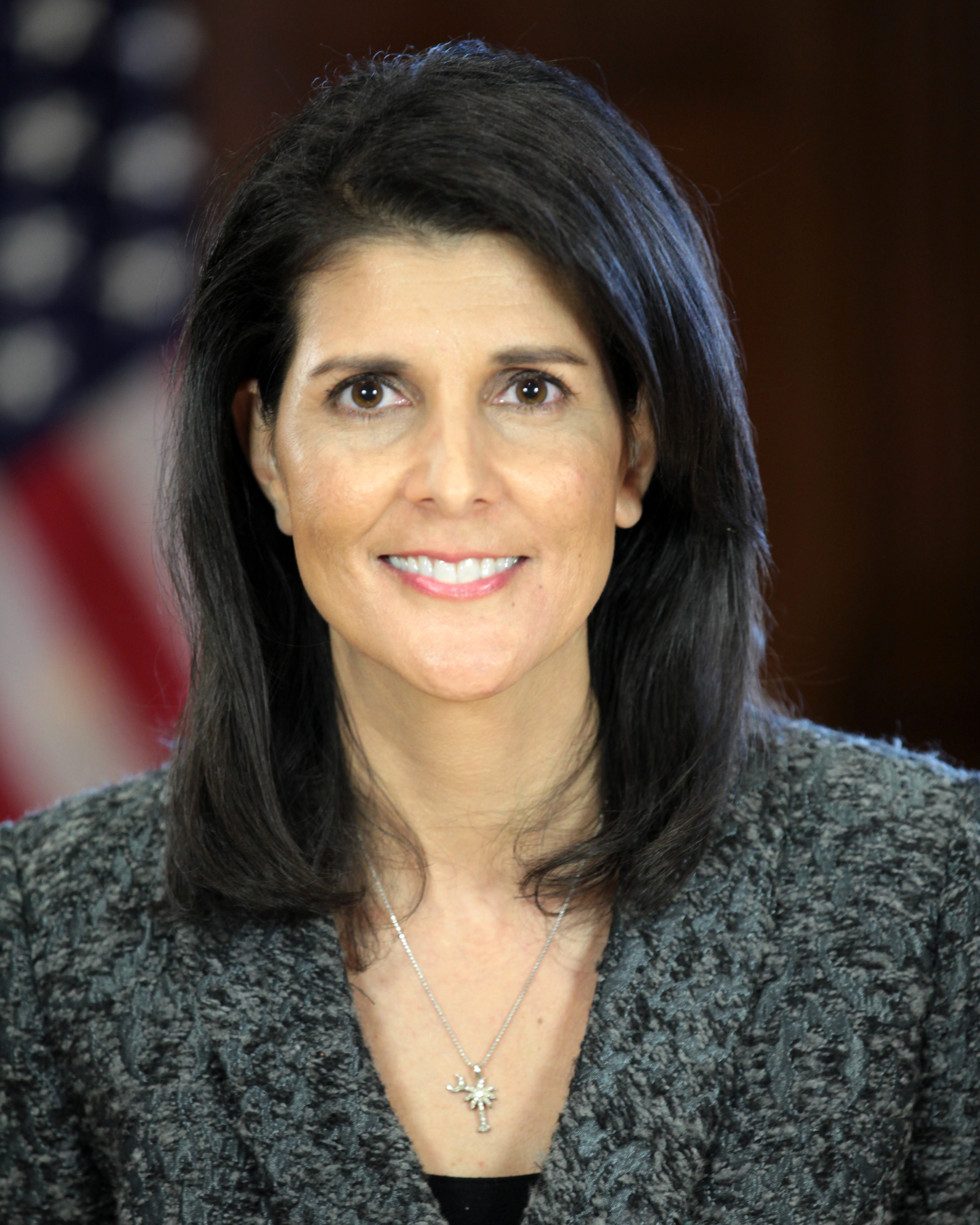 Portrait of Nikki Haley, President-elect Donald Trump's choice for U.S. Ambassador to the United Nations